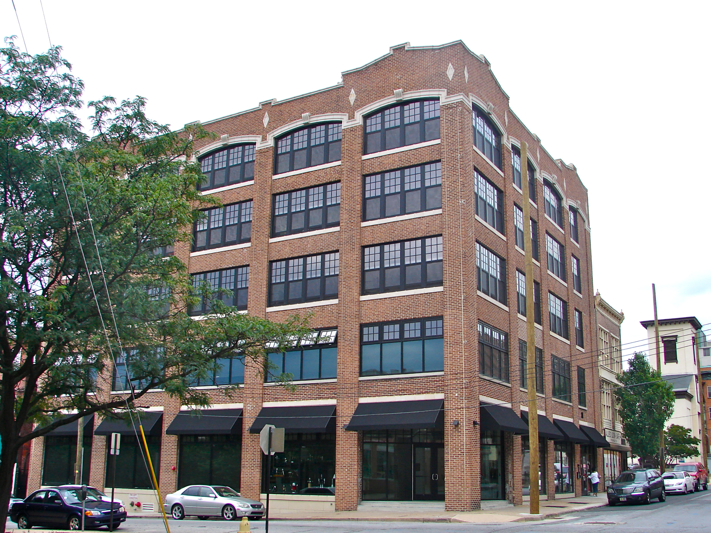 Foord & Massey Furniture Company Building — Wilmington, Delaware. At 701 N. Shipley St., Wilmington, New Castle County, Delaware. On the NRHP since March 24, 2006.